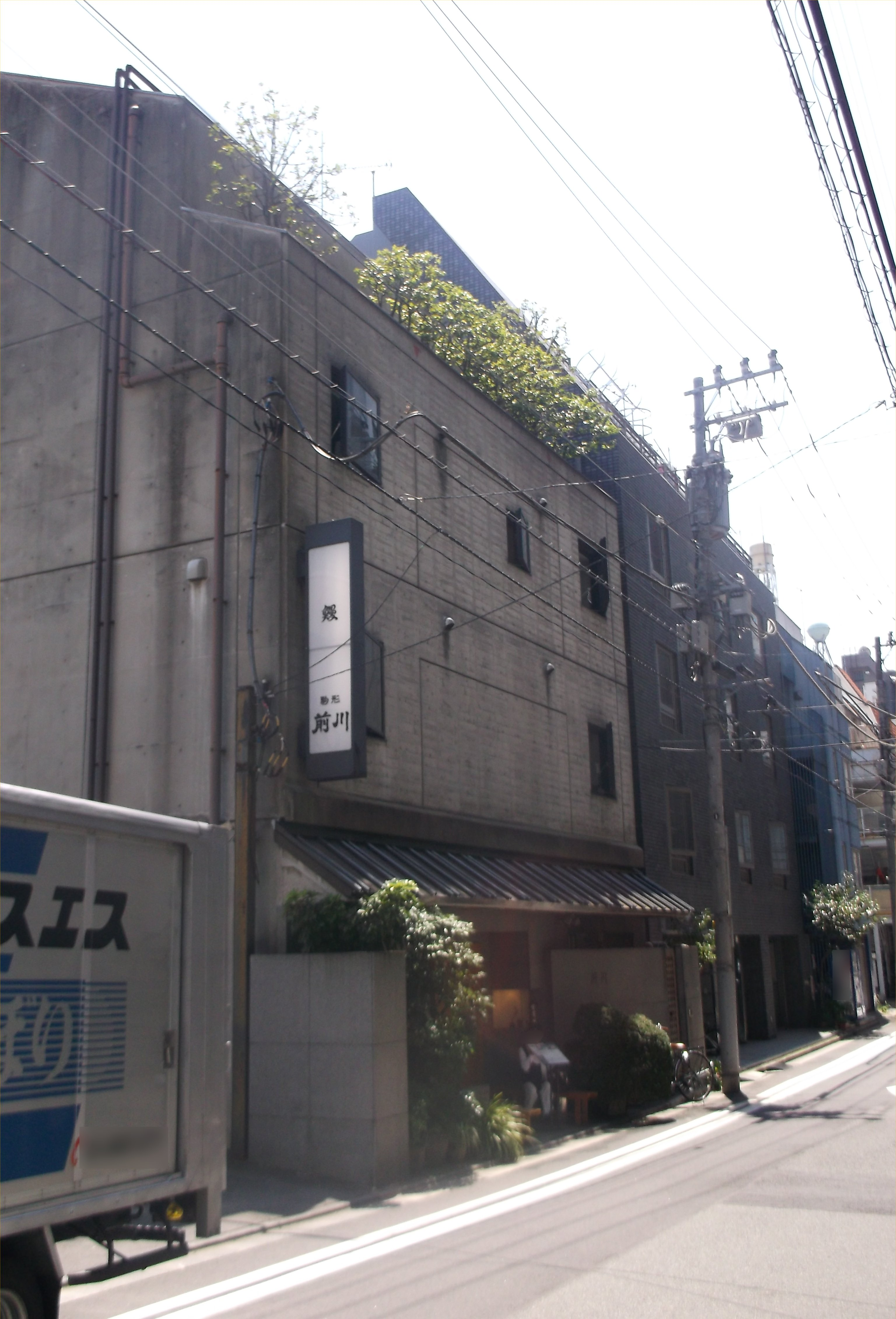 A photo of Unagi restaurant"Maekawa",Komagata,Taito-ku,Tokyo,Jaapan